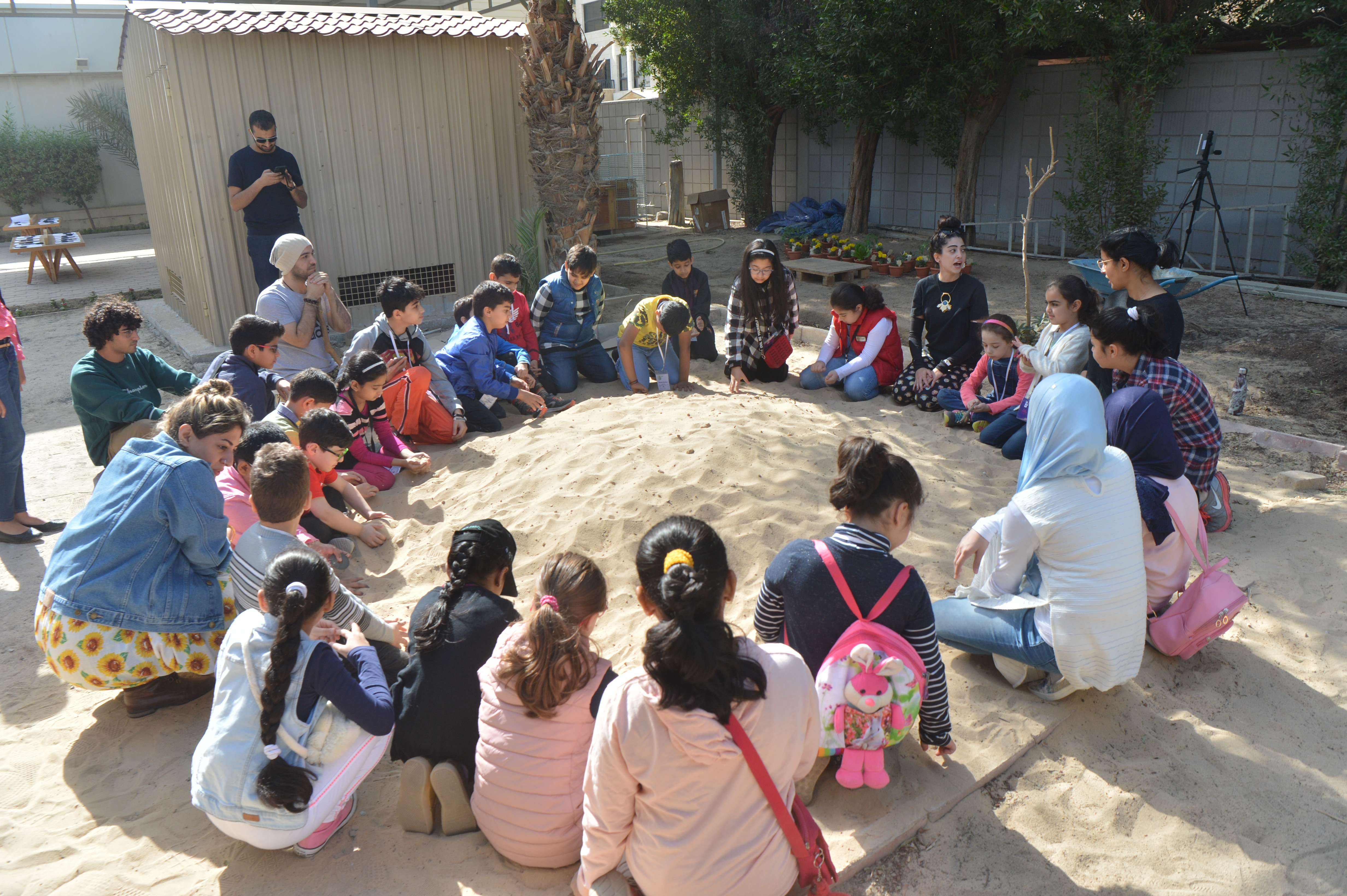 The In.Dig.Go Group gathering in the garden